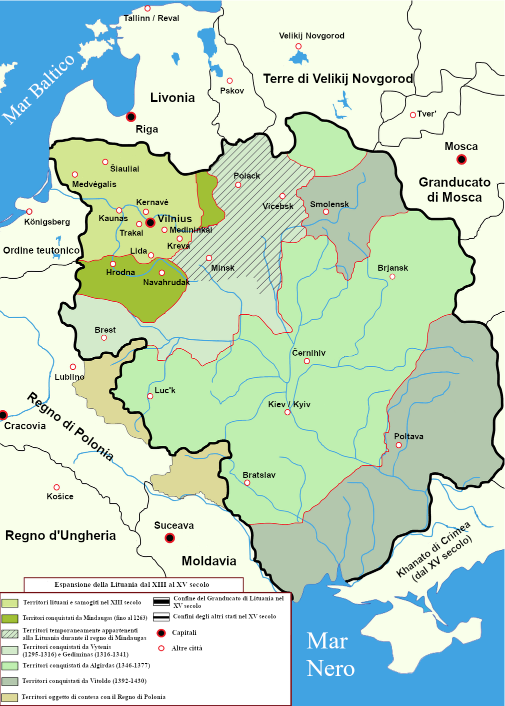 This image was improved or created by the Wikigraphists of the Graphic Lab (it). You can propose images to clean up, improve, create or translate as well.